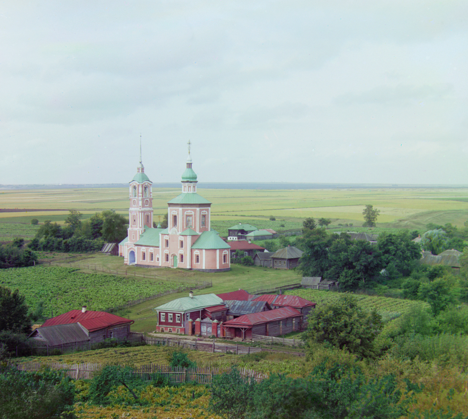 Saints Boris and Gleb Church, Suzdal, 1747